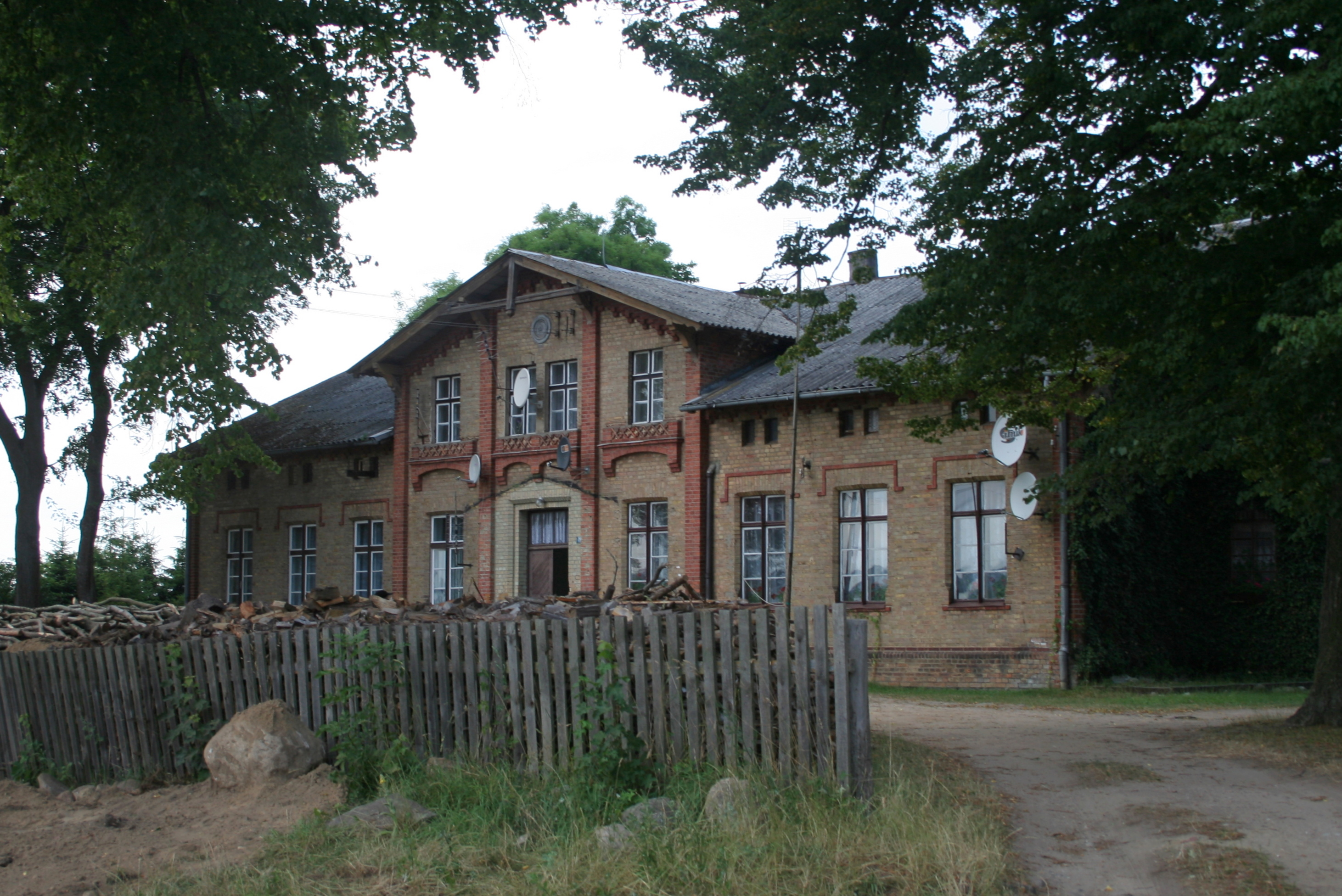 Manor house in Tyłowo.